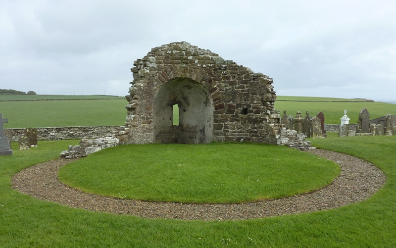 Orphir Church, Orphir, Mainland, Orkney, Scotland. View from west.